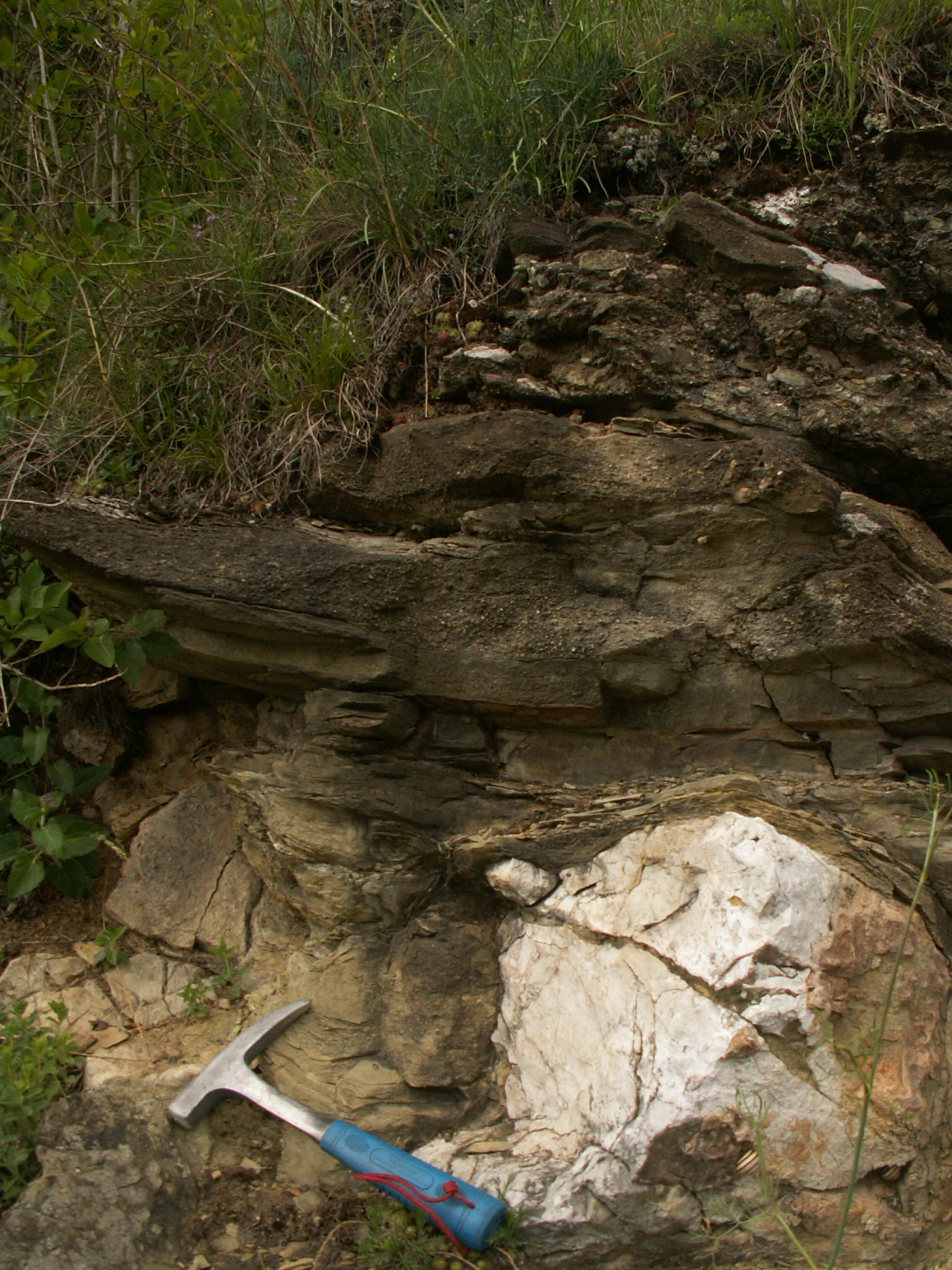 Transgression of the Paleogene sediments of Borové Formation (gray sandstones and conglomerates) of the Inner Carpathian Paleogene Basin on the Triassic Wetterstein Limestones of Silica superunit, Markušovce (Spišská Nová Ves District), Slovakia, Western Carpathians. Geological hammer is 28cm long.